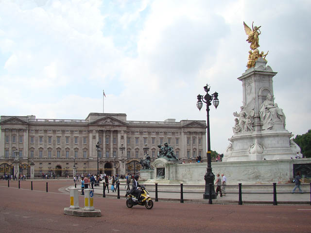 Buckingham Palace and the Victoria Memorial. This view encompasses the whole of Buckingham Palace and the Victoria Memorial and was taken from Birdcage Walk looking west.